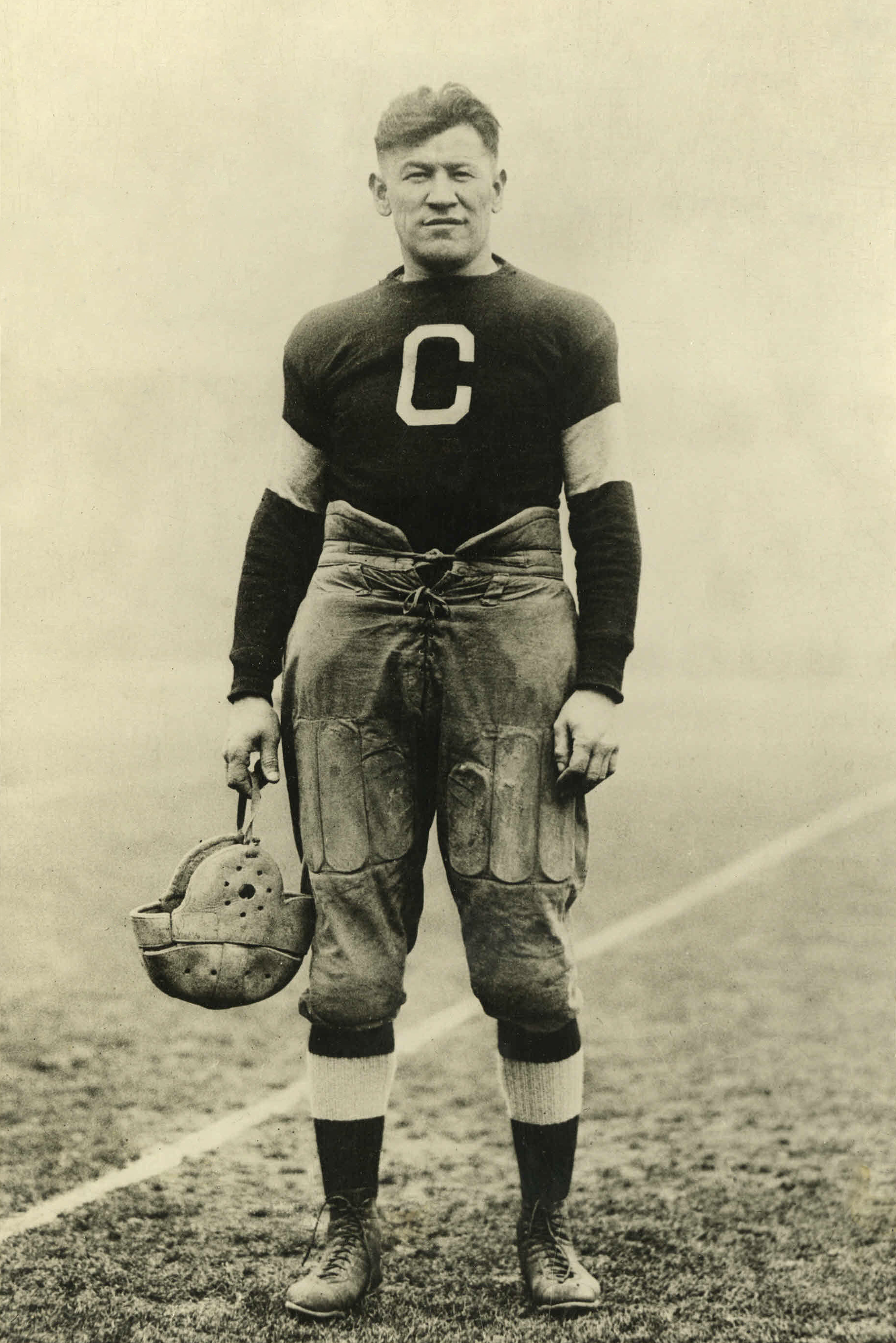 Photograph of Jim Thorpe while playing for the Canton Bulldogs